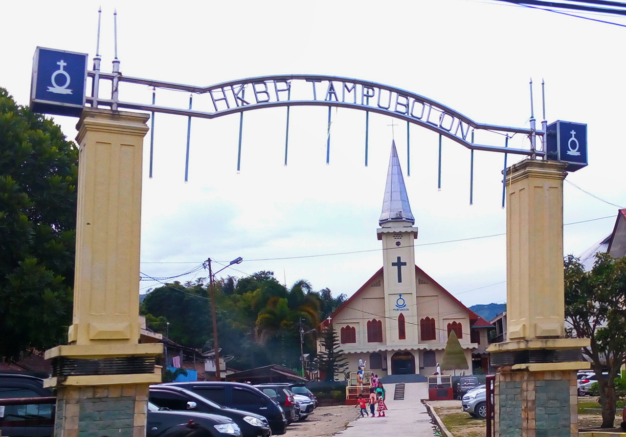 HKBP Tampubolon, Church in Balige, Toba Samosir